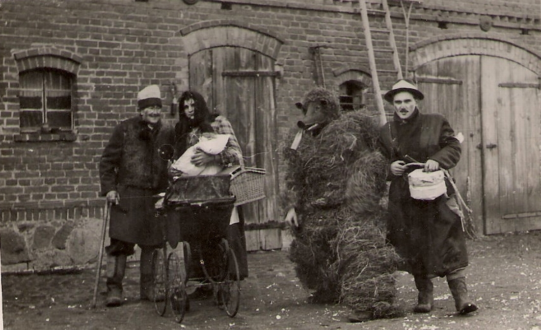 Shrove Tuesday. Mummers Play in Poland